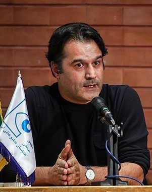 Seifollah Samadian and Satyar Emami